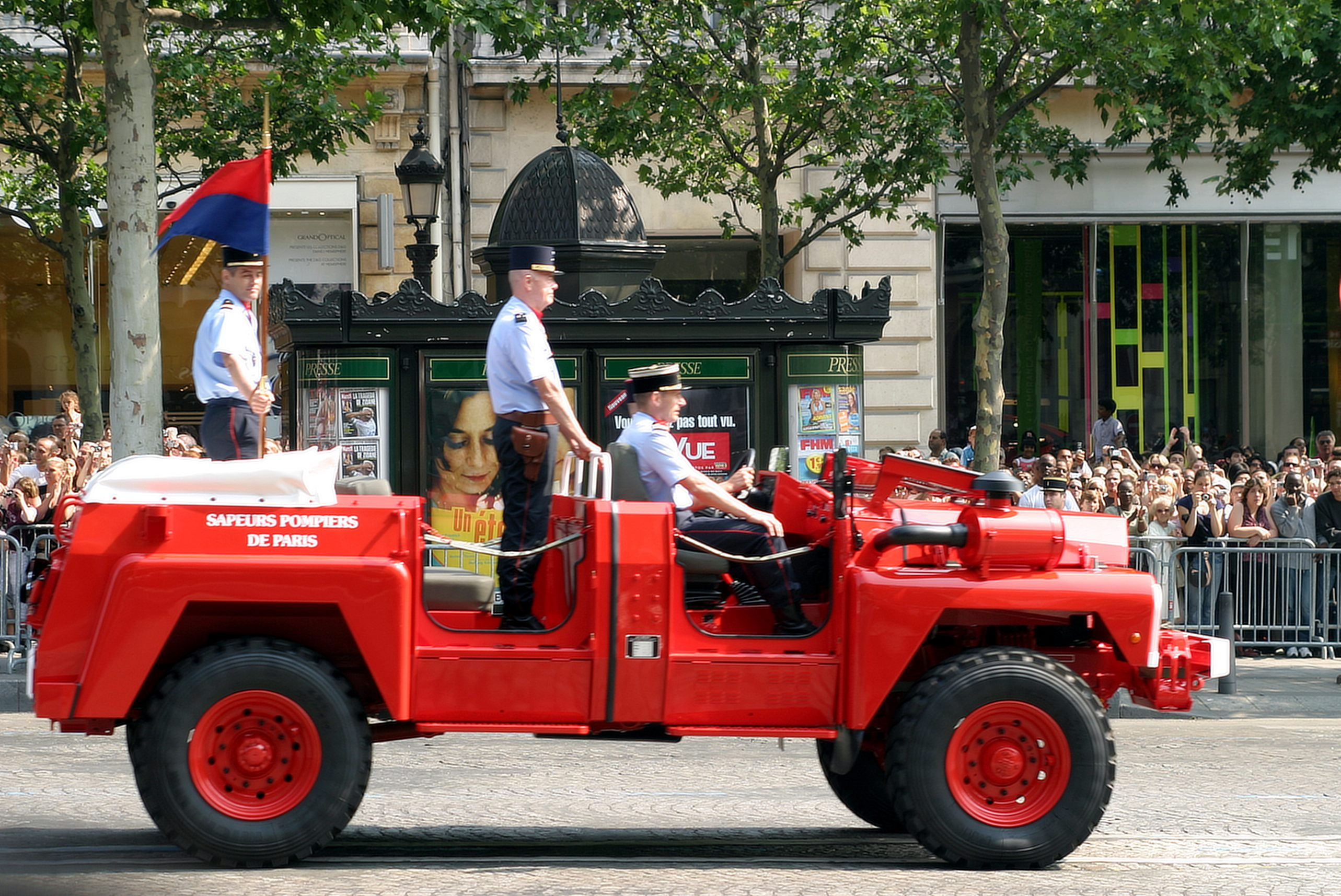 Pompiers parading